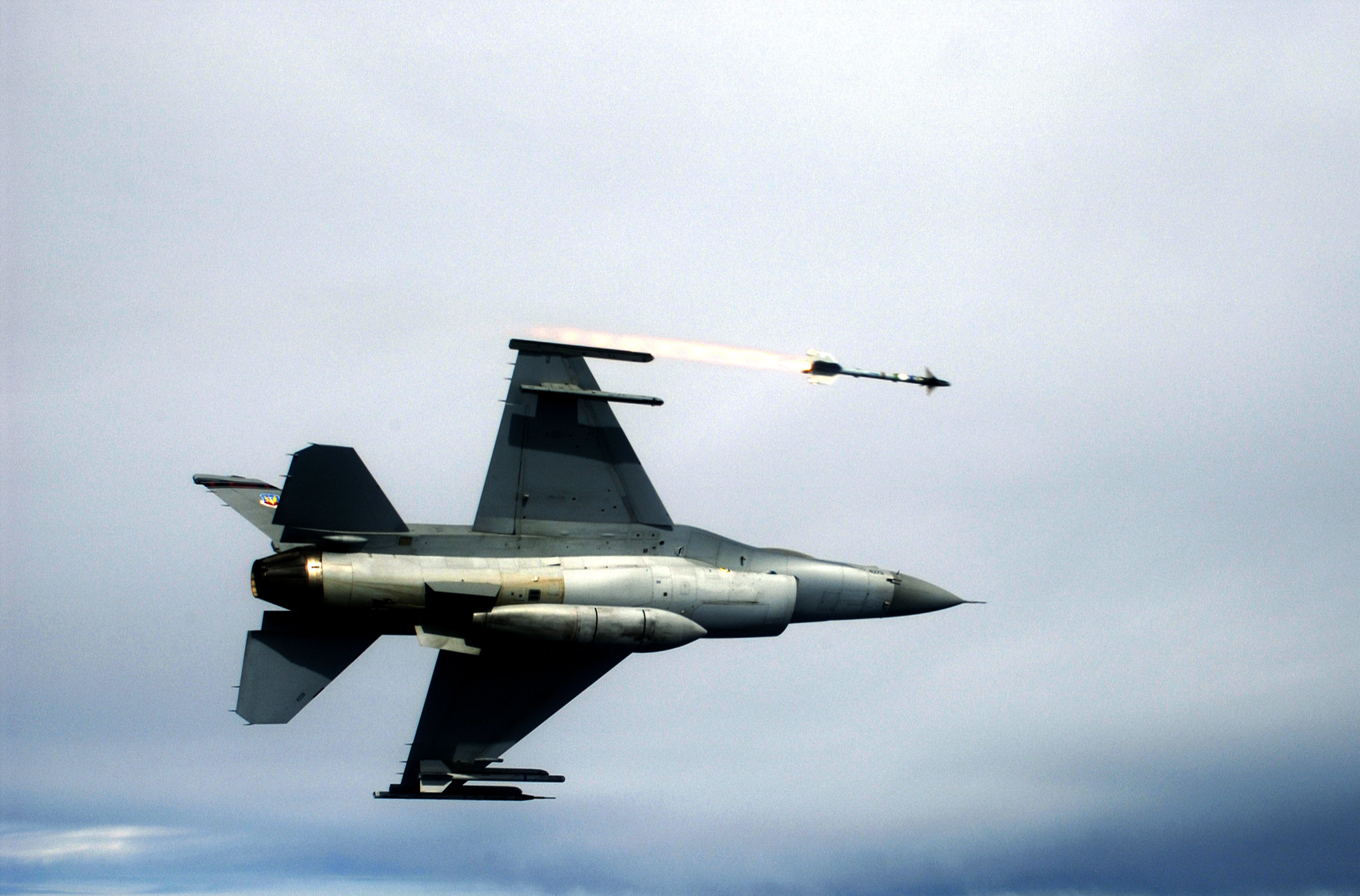 OVER TYNDALL AIR FORCE BASE, Fla. -- Capt. Nai Koh fires an AIM-9 Sidewinder heat-seeking missile from an F-16C Fighting Falcon, at an MQM-107E Streaker sub-scale aerial target drone April 20 during a Combat Archer mission. Captain Koh is an F-16 pilot with the Republic of Singapore air force and is assigned to the 428th Fighter Squadron at Cannon Air Force Base, N.M. (U.S. Air Force photo by Master Sgt. Michael Ammons)